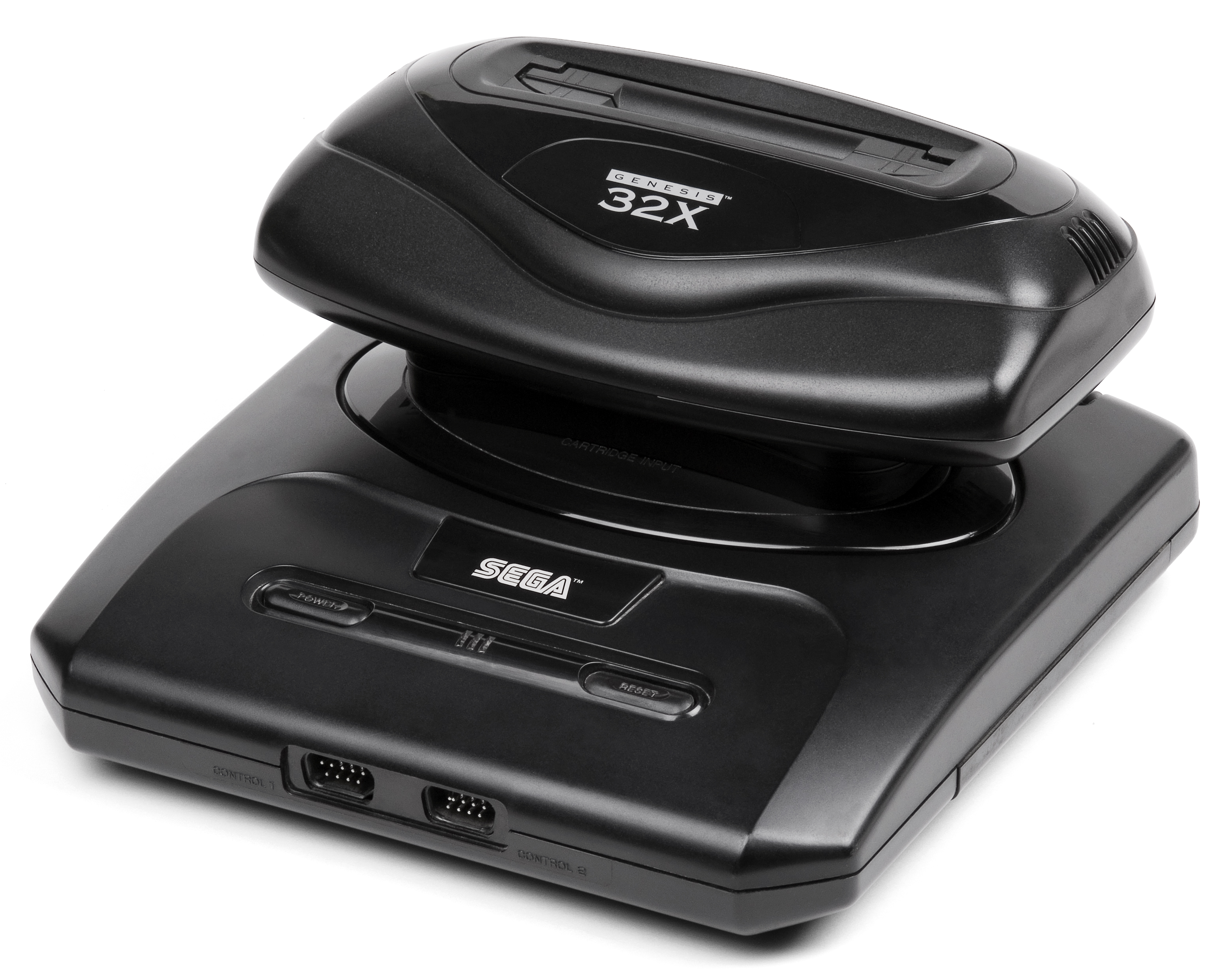 A Sega 32X attached to a model 2 Sega Genesis. This is the JPG version.